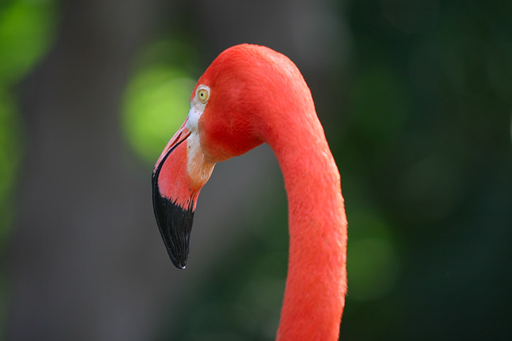 A flamingo head.